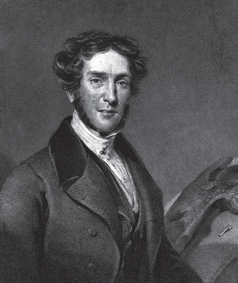 portrait of Gideon A. Mantell (1790-1852), English paleontologist